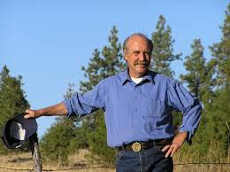 Picture of John R Keeble taken at his home in Medical Lake, Washington, on August 8, 2014